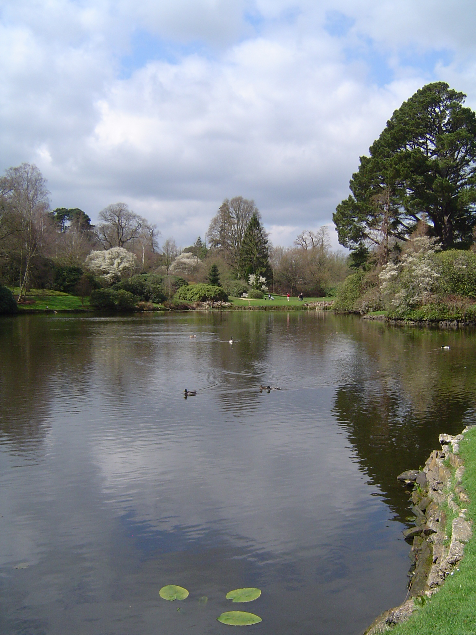 Sheffield Park Garden, East Sussex, UK